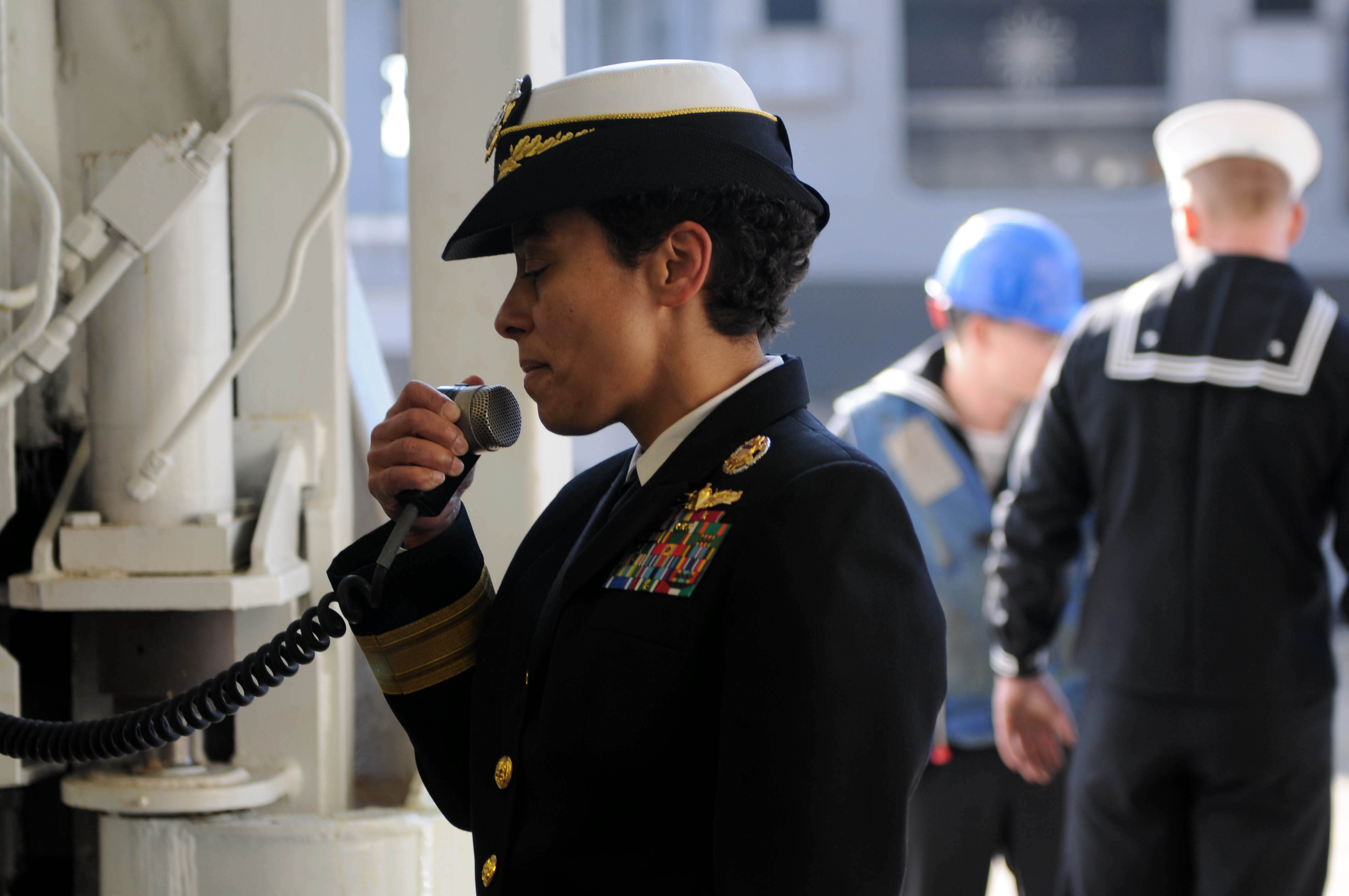 NORFOLK (Dec. 22, 2009) Rear Adm. Michelle Howard, commander of Expeditionary Strike Group Two, commends the crew of the multi-purpose amphibious assault ship USS Wasp (LHD 1) during ship's return to Norfolk after a three-month deployment in the Southern Command area of responsibility supporting Southern Partnership Station-Amphib. (U.S. Navy photo by Mass Communication Specialist 1st Class Andrew McCord/Released)